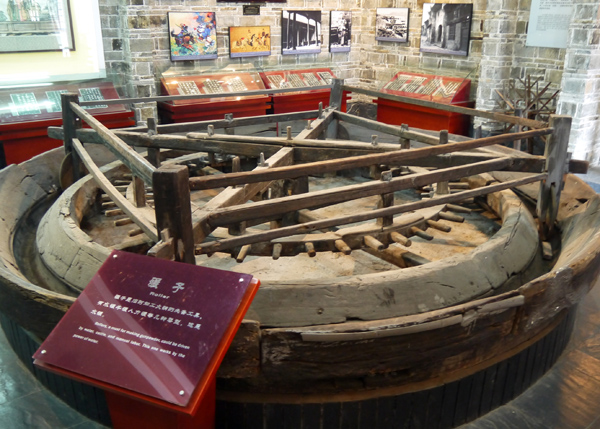 China firework museum